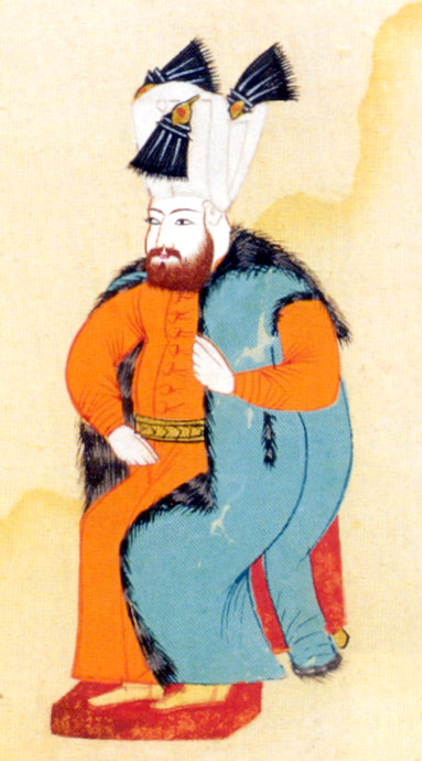 Sultan Ibrahim I "the Mad". Ottoman miniature painting, detail from a family-tree: The Sultan's portrait. [exhibition held at the Topkapı Palace Museum in Istanbul, 6.6.-6.9. 2000]. Topkapı Sarayı Müzesi, Istanbul.